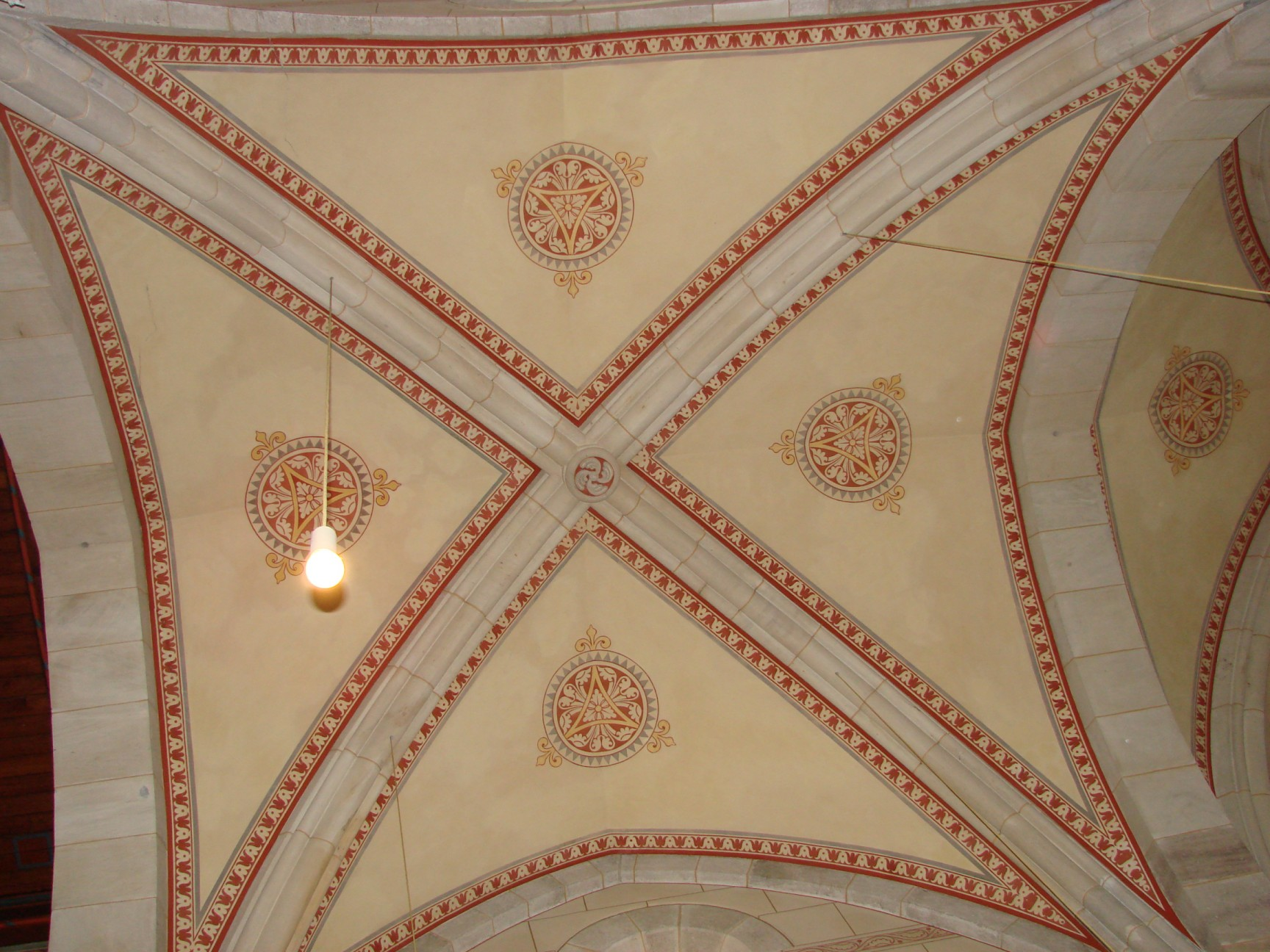 Stiftskirche Oberstenfeld, main vault crossing, 19th century